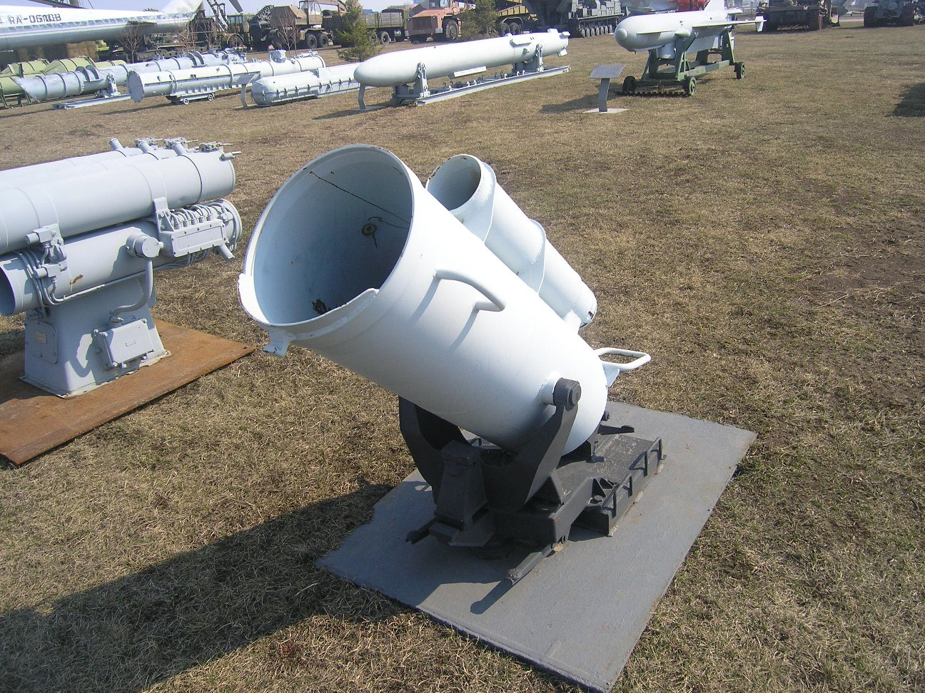 BMB-2 depth charge thrower in Technical museum Togliatti